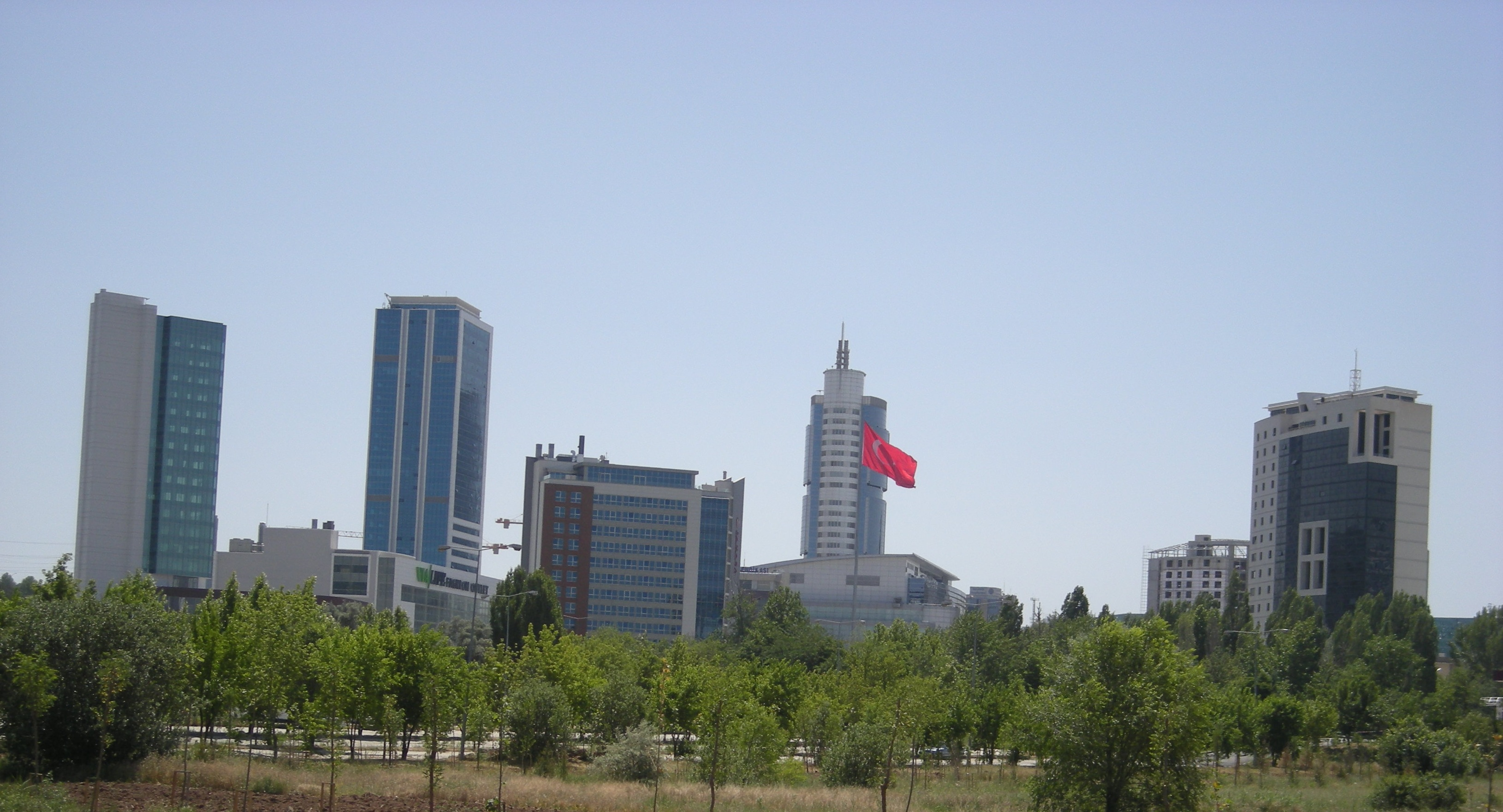 Söğütözü financial district in Ankara, June 16, 2010